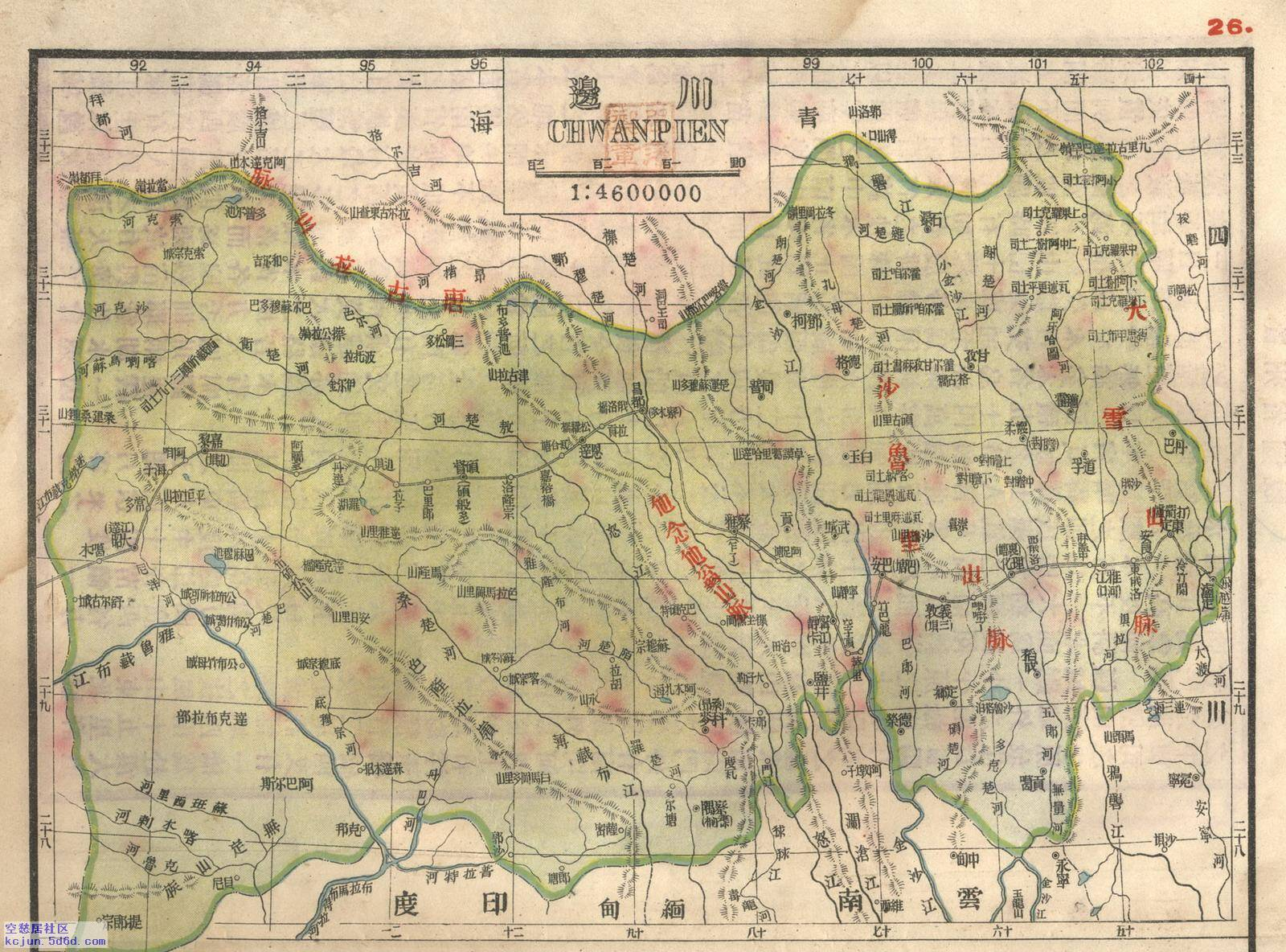 Chuanbian specian district in 1920's